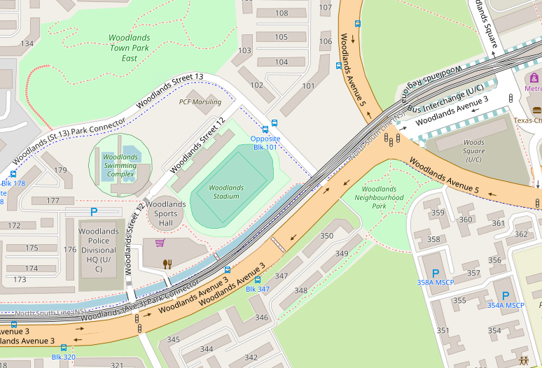 Woodlands Stadium